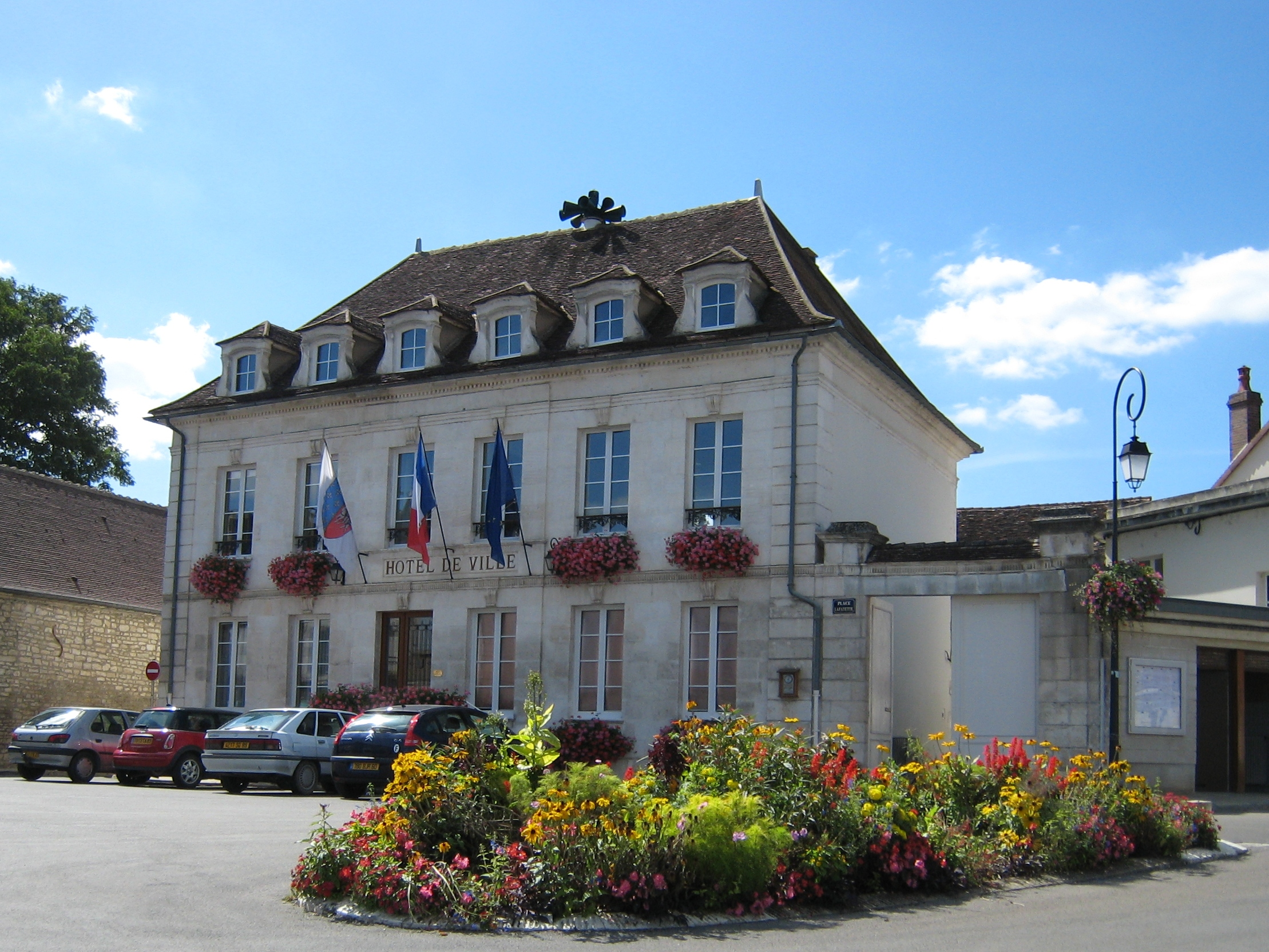 The Hôtel de Ville (town hall) of Chablis, Burgundy.